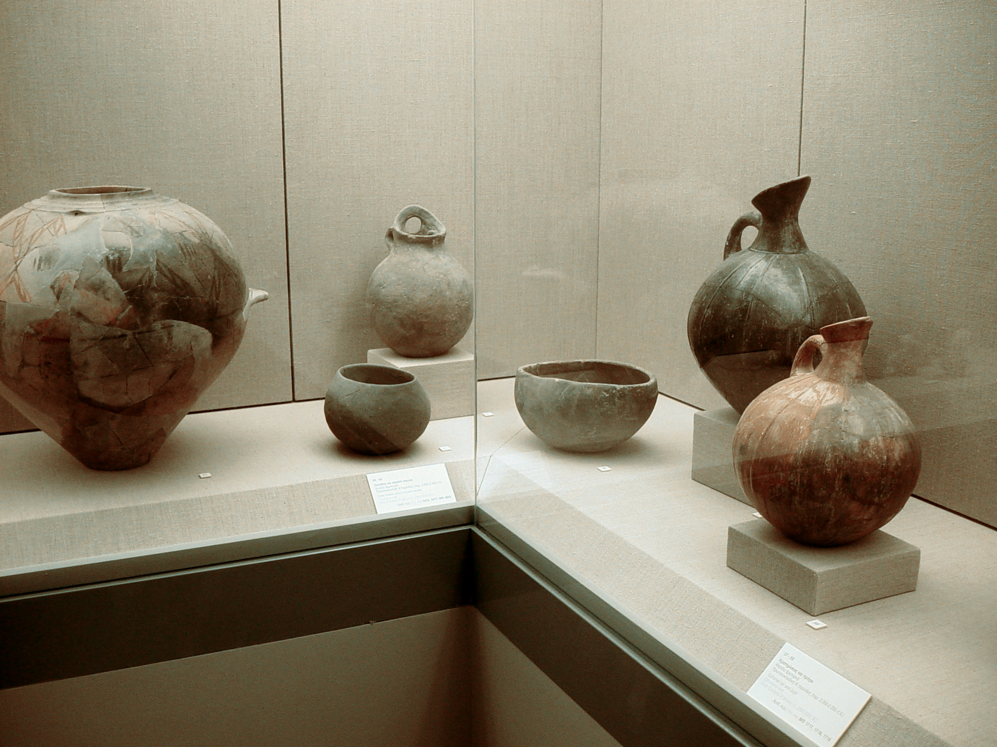 Utilitarian terracotta objects, Museum of Cycladic Culture, Akrotiri excavation artifacts, Santorini, Cyclides, Hellas (Greece)